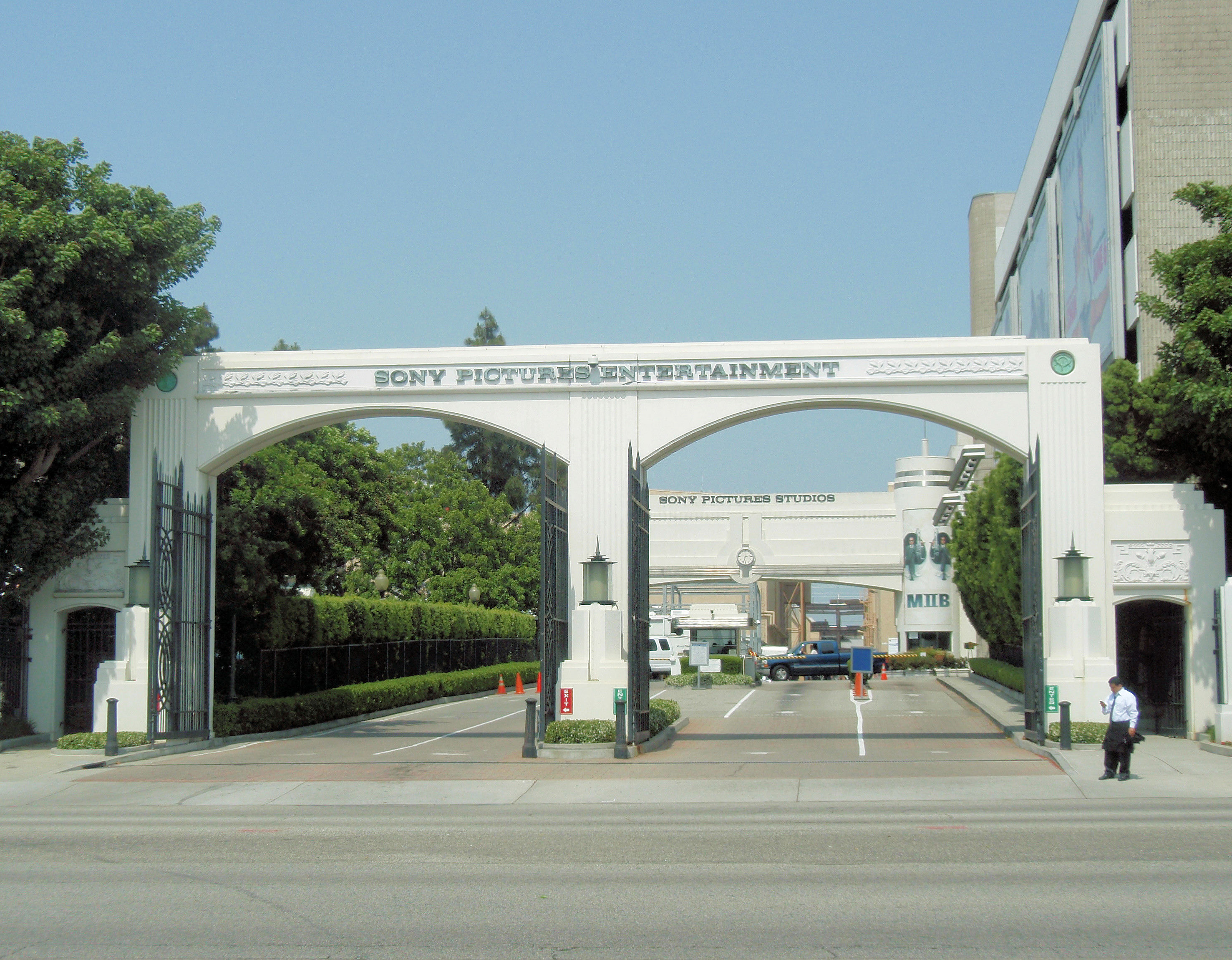 The main entrance to the Sony Pictures Entertainment studio lot in Culver City.